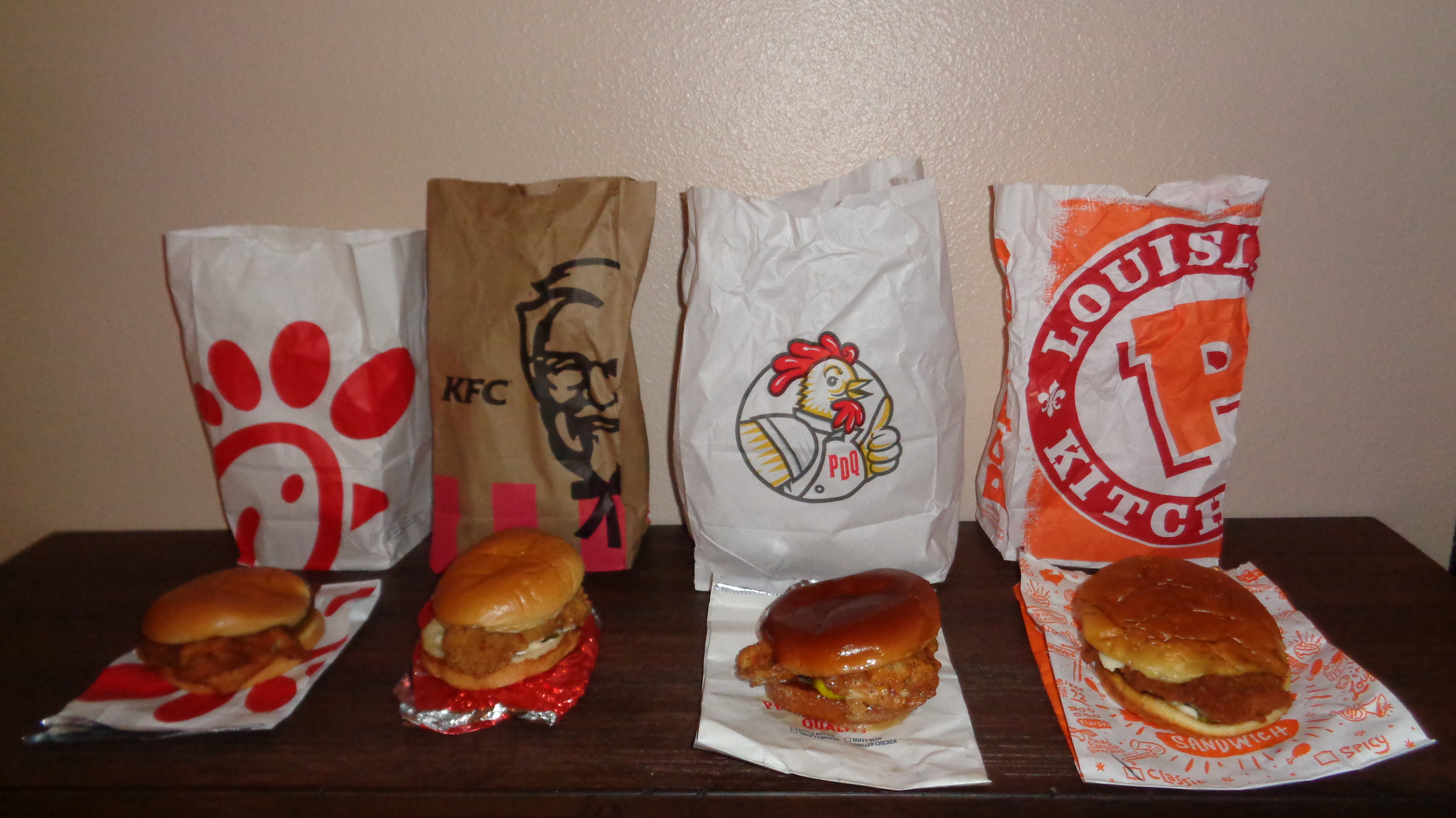 Fried chicken sandwiches are common menu items in American fast food restaurants. Some, such as Chick-fil-A, KFC, PDQ, and Popeyes (all pictured from left to right), specialize in them.